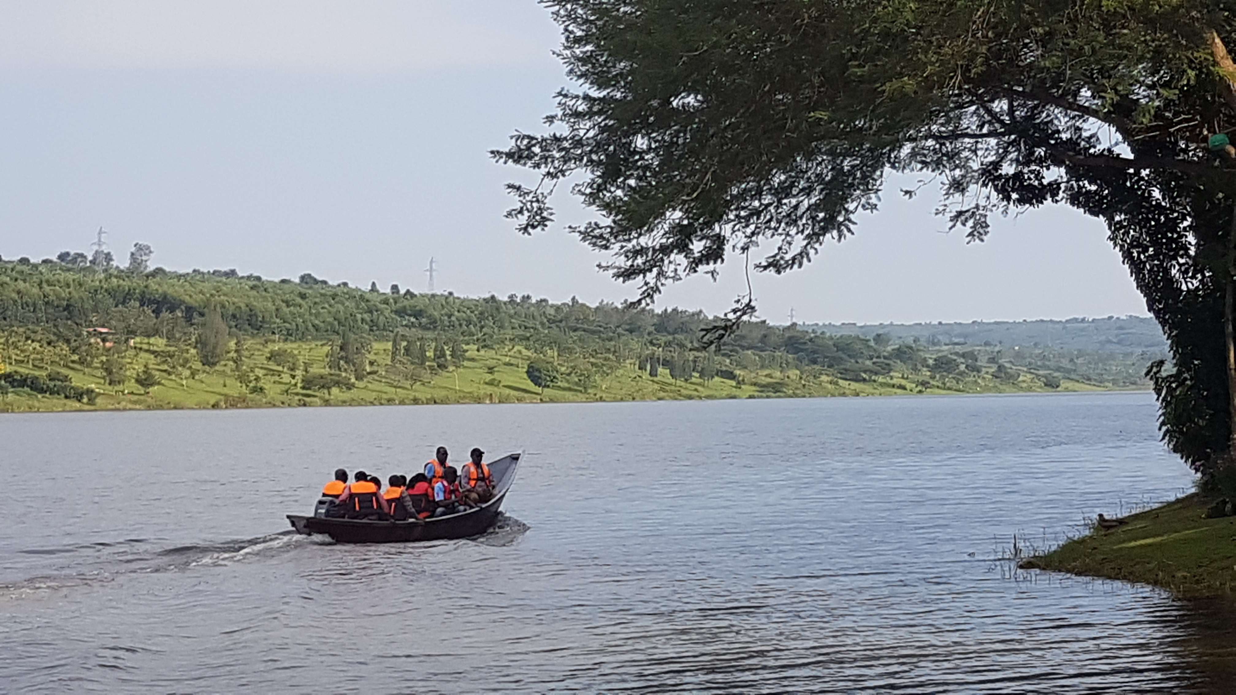 Passenger tour boat on Lake Muhazi, Rwanda, Africa This is an image with the theme "Africa on the Move or Transport" from: Rwanda